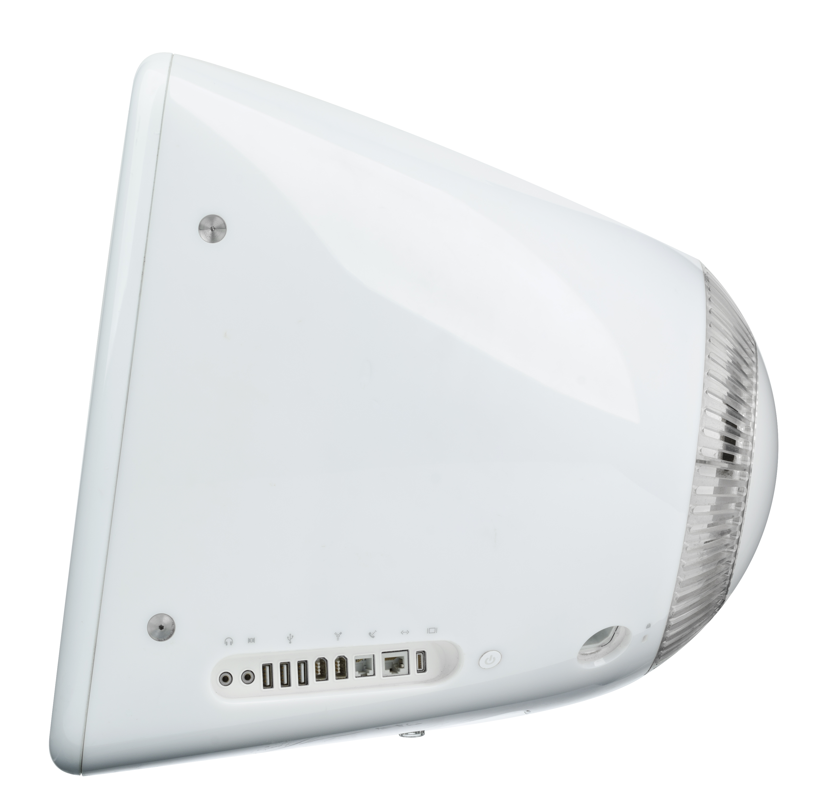 The Apple eMac, an all-in-one computer released by Apple in 2002. It used a CRT monitor that had the computer built around it, similar to the first generation iMacs. This was at first an education-market computer, but was later sold in stores.